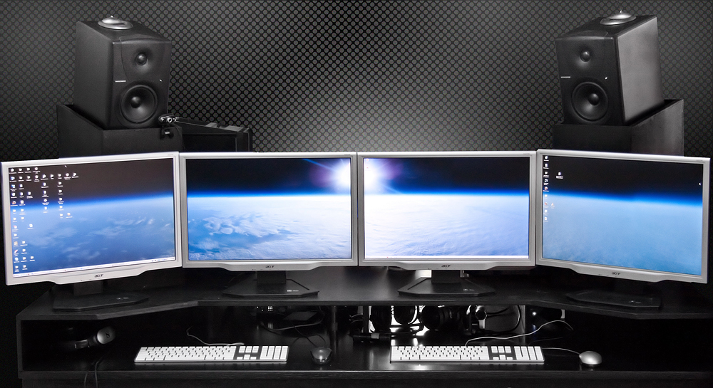 Multi-Screen Computer Desk with a Music Studio Setup